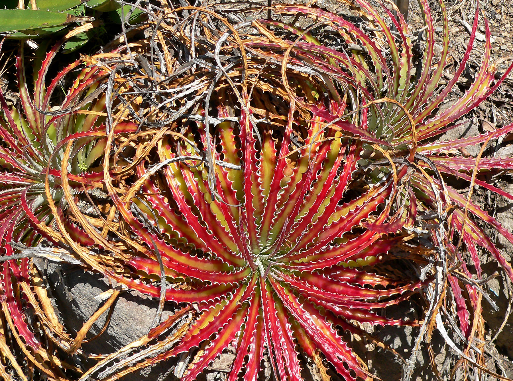 Hechtia texensis at the University of California Botanical Garden, Berkeley, California